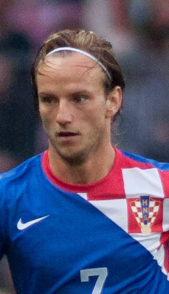 Croatia vs. Portugal, 10th June 2013